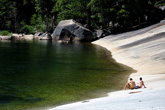 Photo by Jimi Naftalin